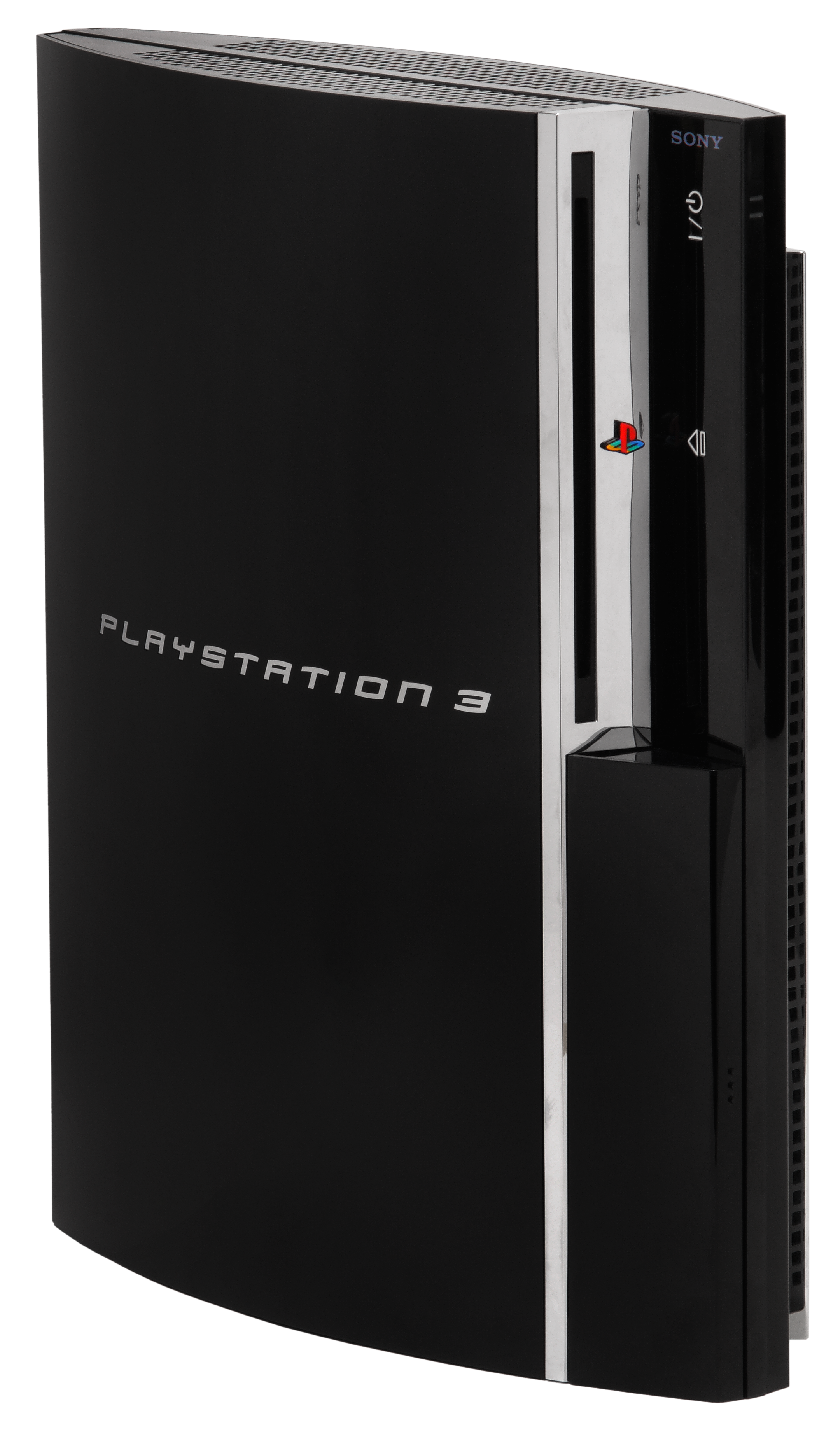 The Sony PlayStation 3 console. This is the original "Fat" version with 60GB hard drive, PS2 backwards compatibility and memory card reader. This is the PNG version.